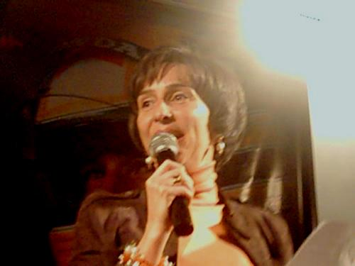 Brazil: The Ayrton Senna Institute President, Mrs Viviane Senna, during a workshop in Brasília (2006)